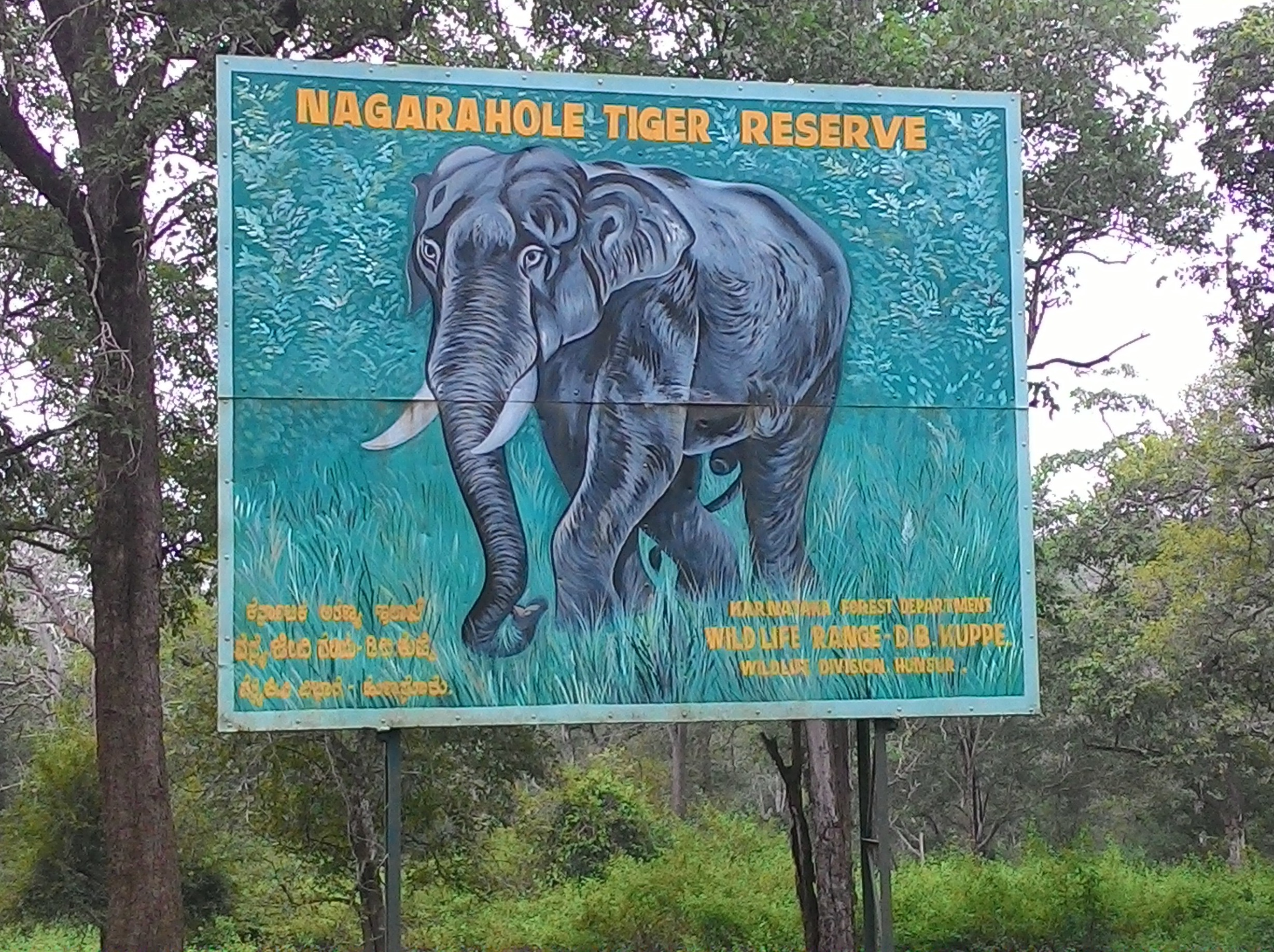 Information board at Nagarhole National park